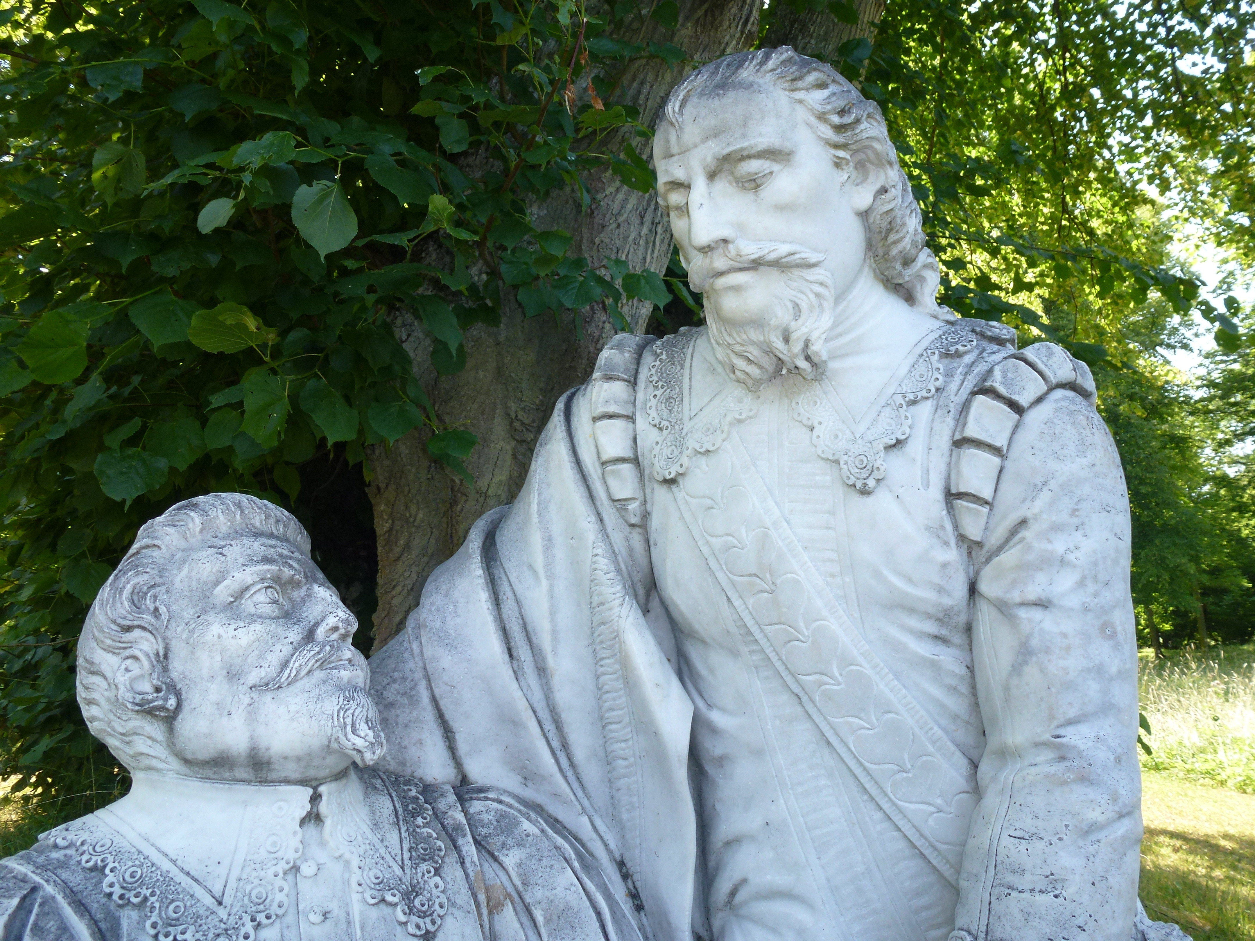 Axel Oxenstierna and Gustav II Adolf (left) att Svartsjö slott